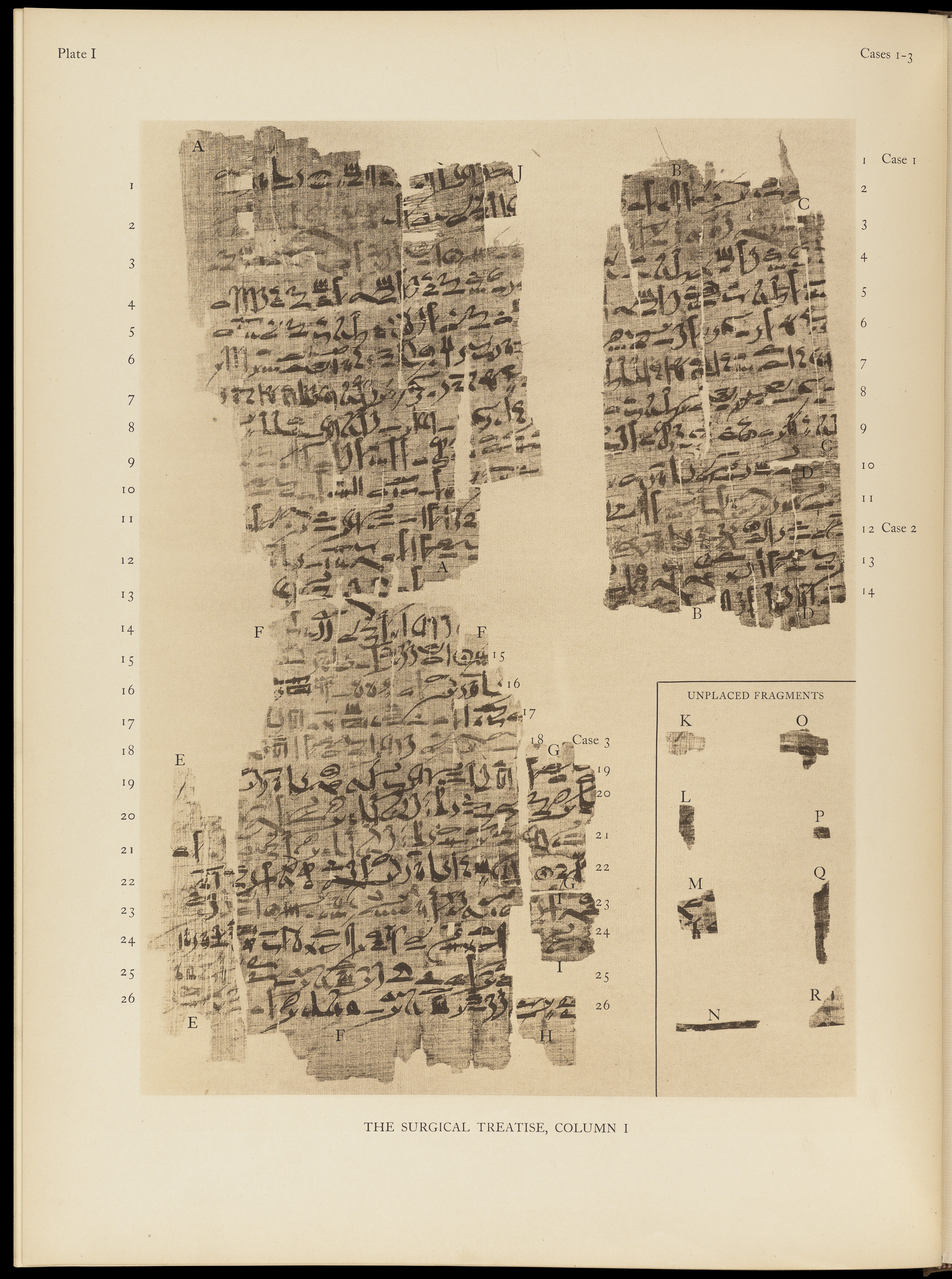 Edwin Smith surgical papyrus Recto Column 1 (Cases 1-3) General Collections Keywords: General Surgery